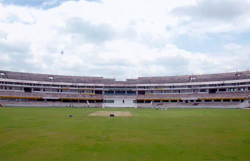 This image shows the Rajiv Gandhi stadium at Uppal, Hyderabad, India.